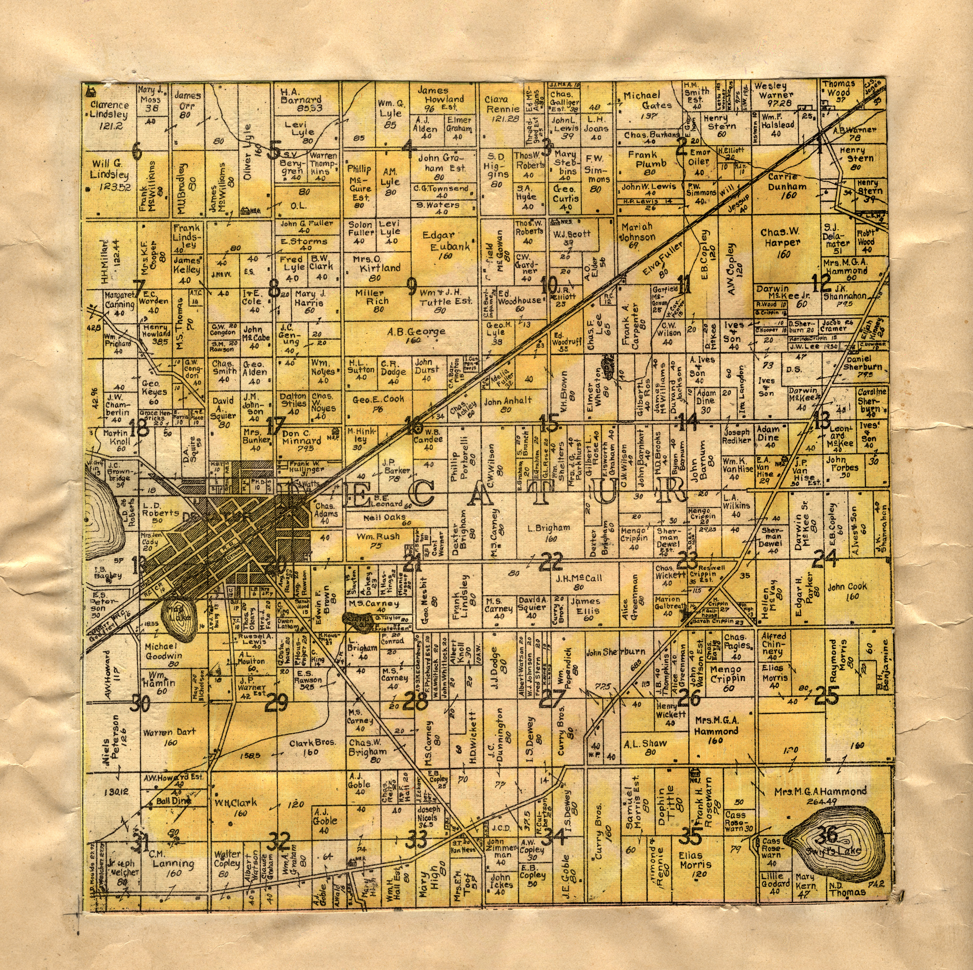 Digital scan of the Decatur Township portion of a larger 1906 map of Van Buren County, Michigan. The county map was cut into township-sized pieces, and the pieces were later found pasted into an 1895 atlas of Van Buren County, now in the collection of the Michigan State University Map Library. Each township map cut from the 1906 county map was pasted onto a blank page opposite the map of the corresponding township in the 1895 county atlas. Shows parcel boundaries and names of property owners, Public Land Survey System township and section numbering, roads, railroads, residences, schools, churches, municipalities, and water features. Print version was cut from map: Orton, M. K. A farm map of Vanburen County, Michigan / compiled from official records and local inspection by W.H. Goss, County Surveyor ; drawn by M.K. Orton. Rockford, Ill. : W.W. Hixson, [1906]. MSU Libraries catalog record